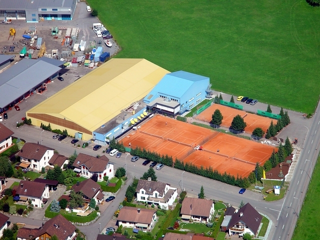 Sportcenter Leuholz